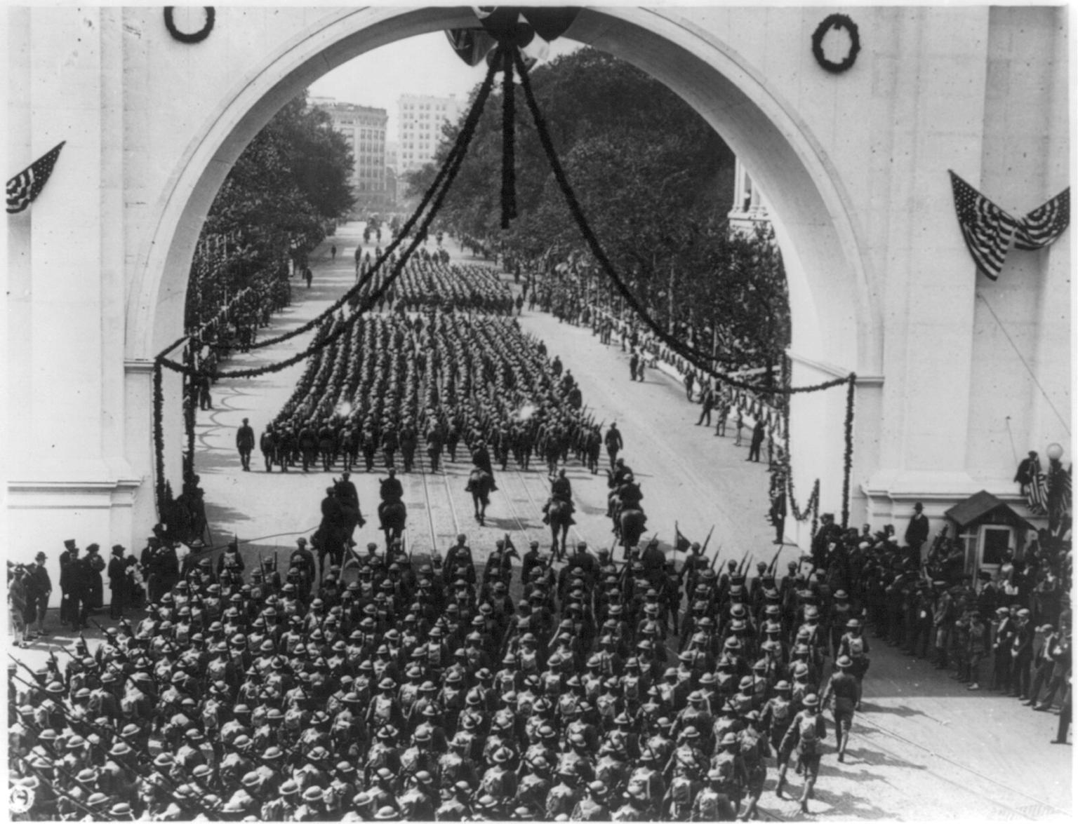 Soldiers returning from World War I parading through Victory Arch on Pennsylvania Avenue in Washington, DC.